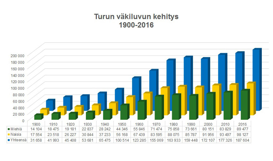 Population of Turku (Finland) 1900-2016